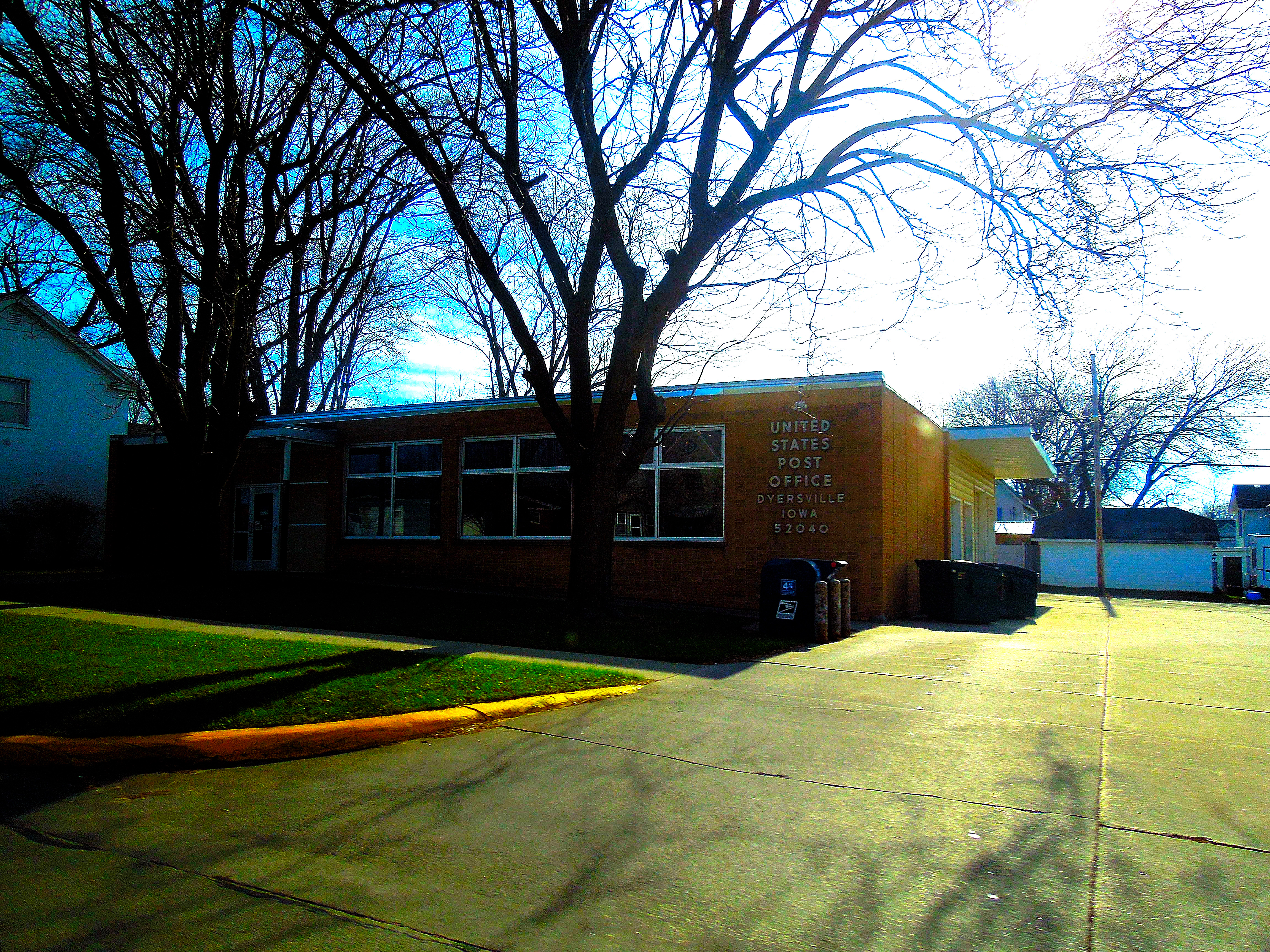 Dyersville Post Office 52040